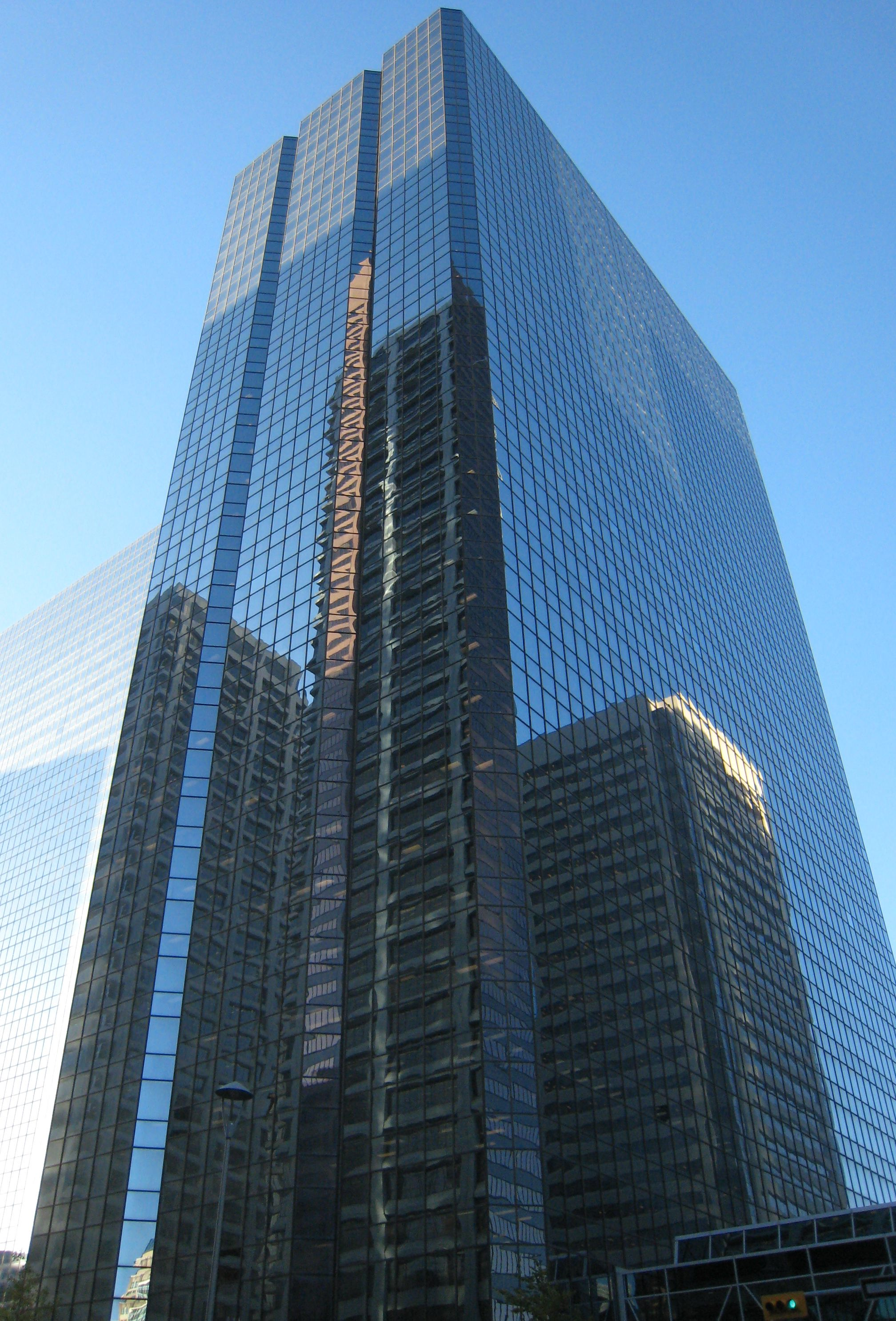 Calgary snapshot